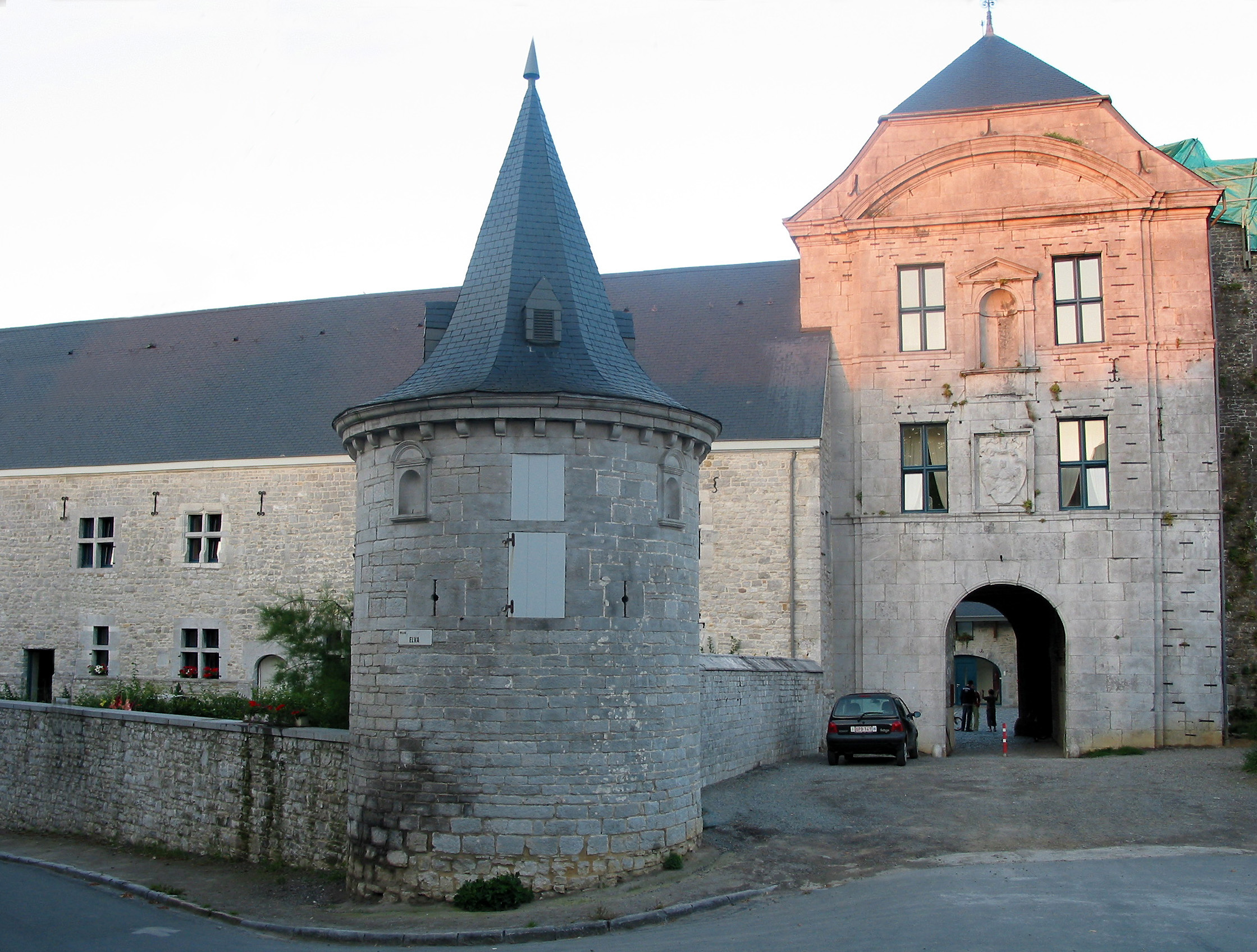 Anthisnes (Belgium), the St. Lawrence abbey farm (XVIIth century).